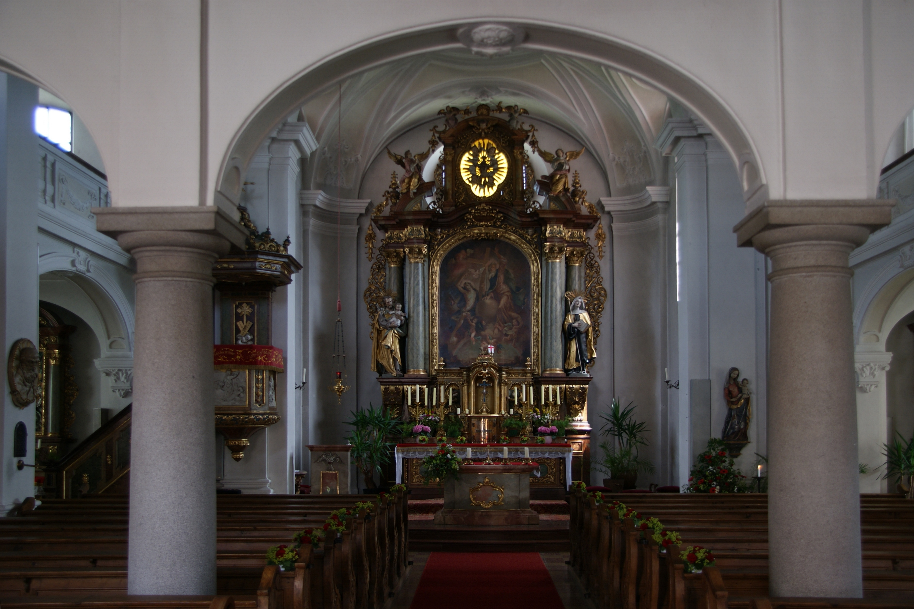 Neo-baroque church of castle Neuhaus am Inn